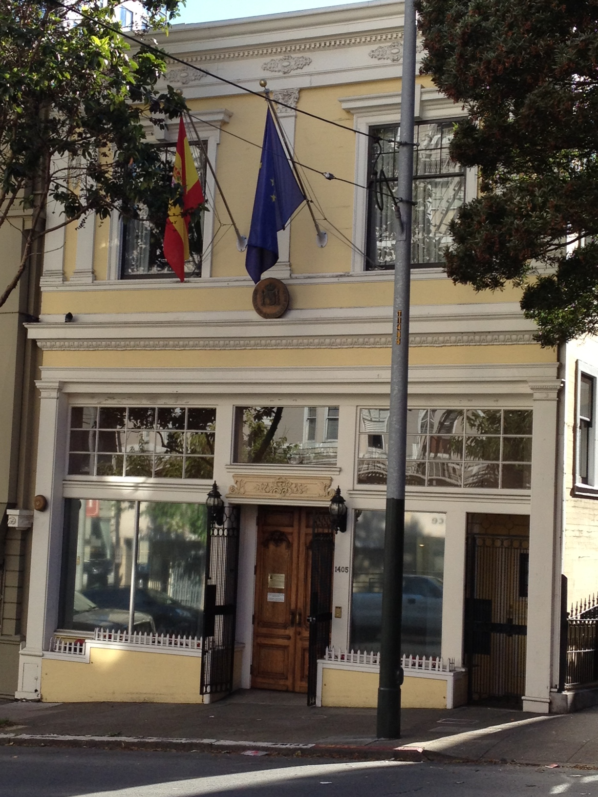 Consulate-General of Spain in San Francisco, USA